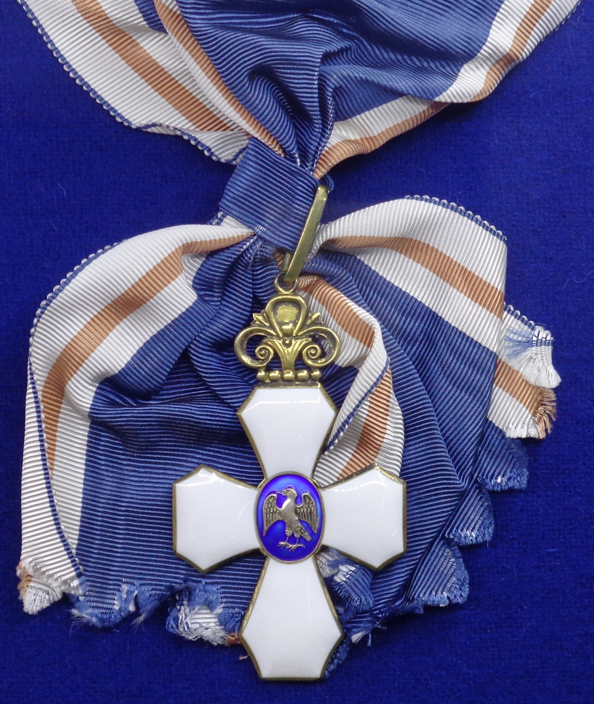 Order of the Falcon, badge and sash of Grand Cross, 1950-1970. Iceland. The exhibition of the Tallinn Museum of Orders of Knighthood, Estonia.